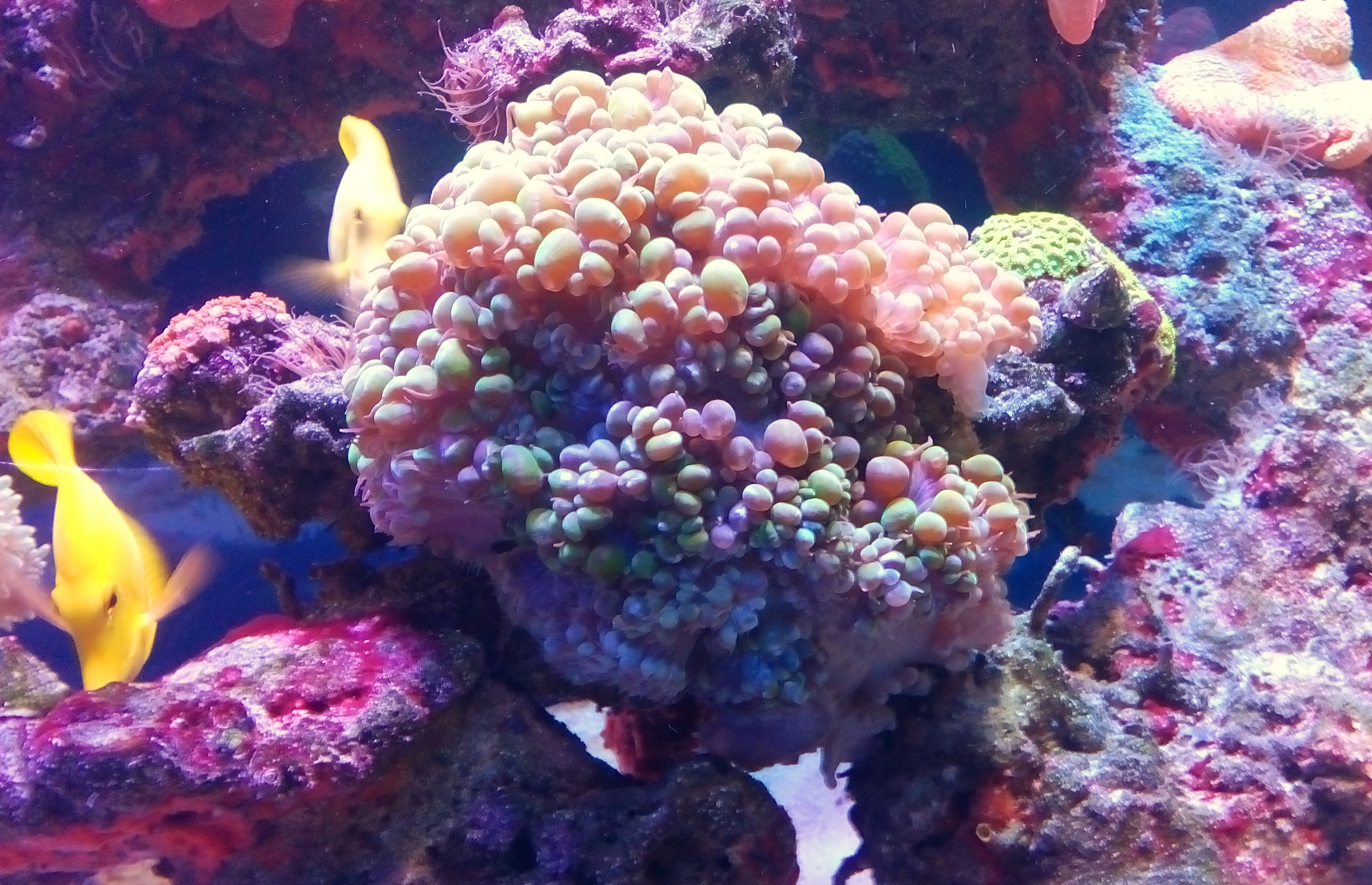 SPlerogyra sinuosa in the Kiev Oceanarium "Sea Tale"